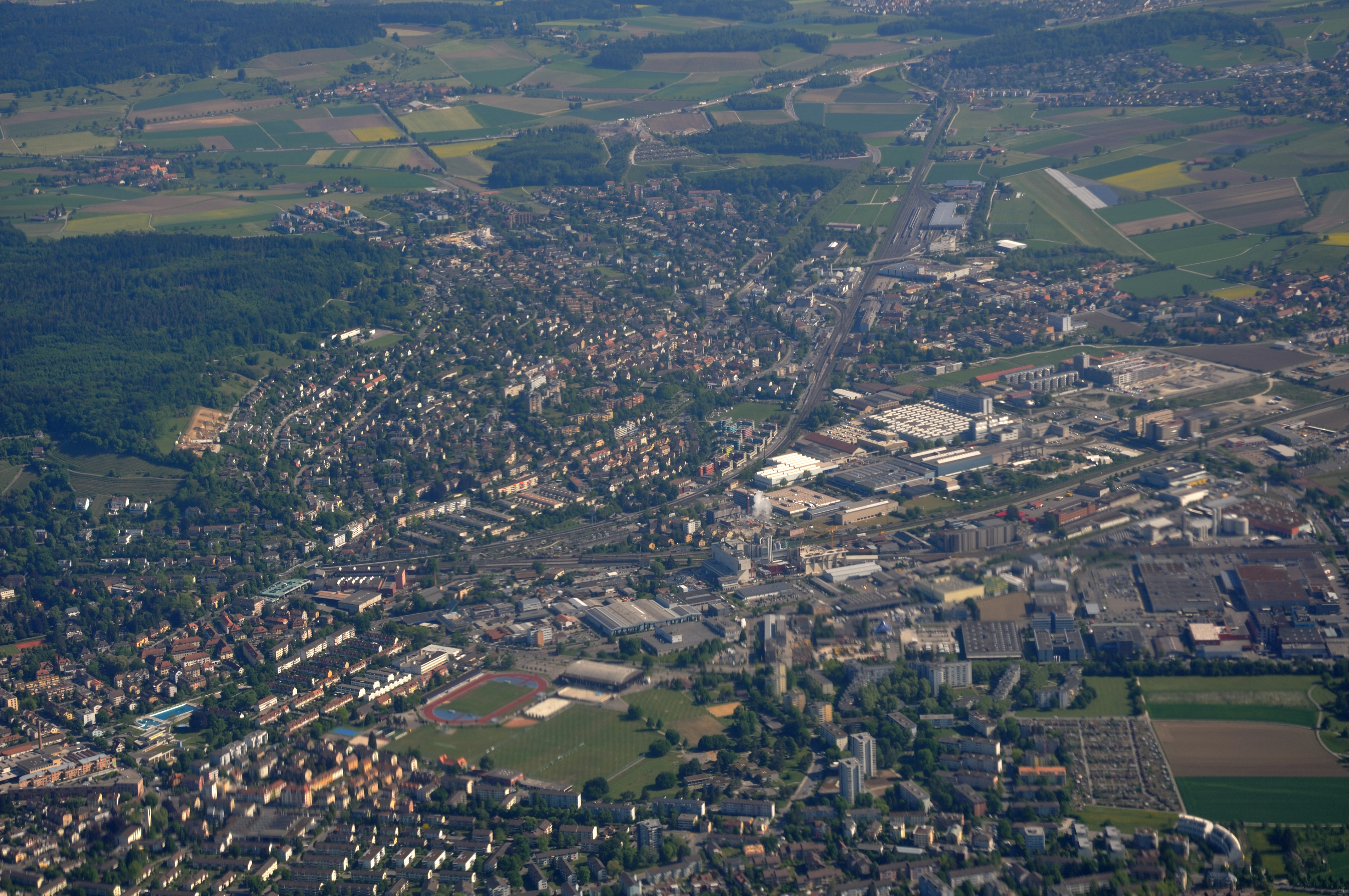 Switzerland, Canton of Zürich, aerial view of Winterthur